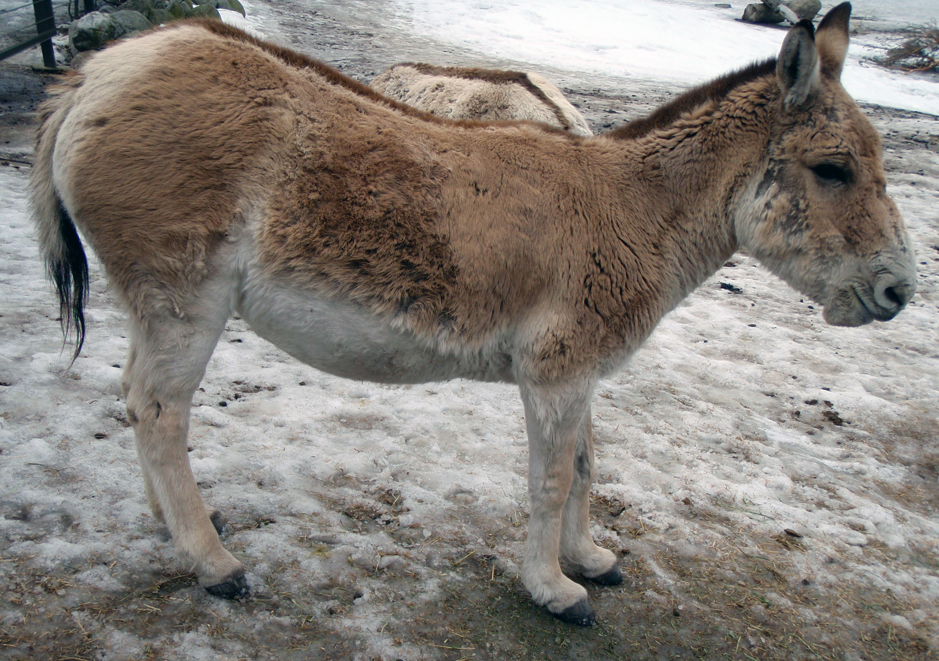 Turkmenian Kulan (Equus hemionus kulan) at Korkeasaari Zoo.